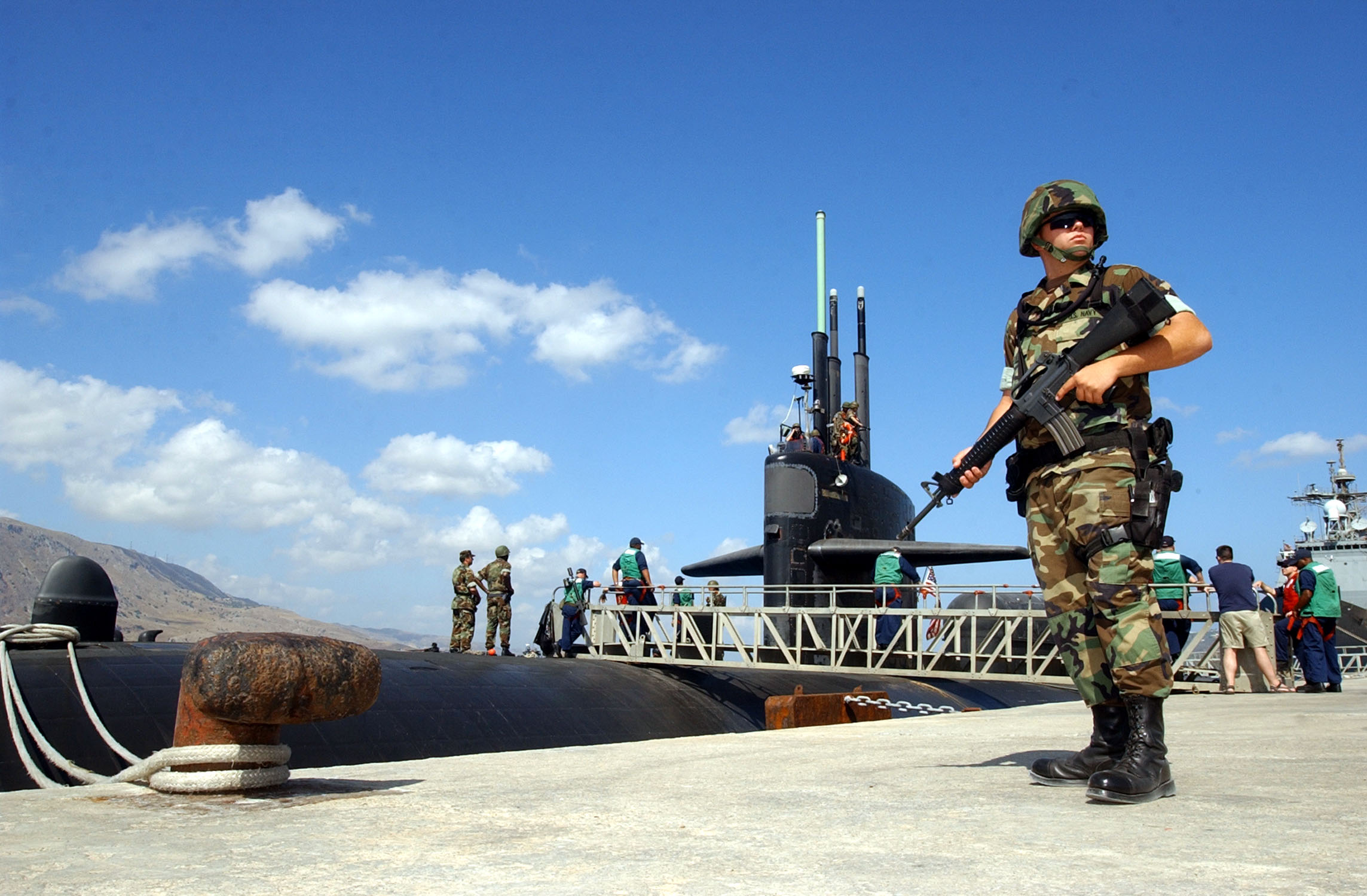 Souda Bay, Crete, Greece (July 17, 2004) – Master-at-Arms Seaman Apprentice Nathan Hastings, from Henry, Ill., scans the surrounding area while standing a pier security watch as the Los Angeles-class attack submarine USS Dallas (SSN 700) prepares to get underway from Souda Bay, Crete, Greece. Commissioned in 1981, Dallas is the first Los Angeles-class submarine to have a Dry Deck Shelter (DDS). Dry Deck Shelters provide specially configured nuclear powered submarines with a greater capability of deploying Special Operations Forces (SOF). DDSs can transport, deploy, and recover SOF teams from Combat Rubber Raiding Crafts (CRRCs) or SEAL Delivery Vehicles (SDVs), all while remaining submerged. In an era of littoral warfare, this capability substantially enhances the combat flexibility of both the submarine and SOF personnel. U.S. Navy photo by Paul Farley (RELEASED)